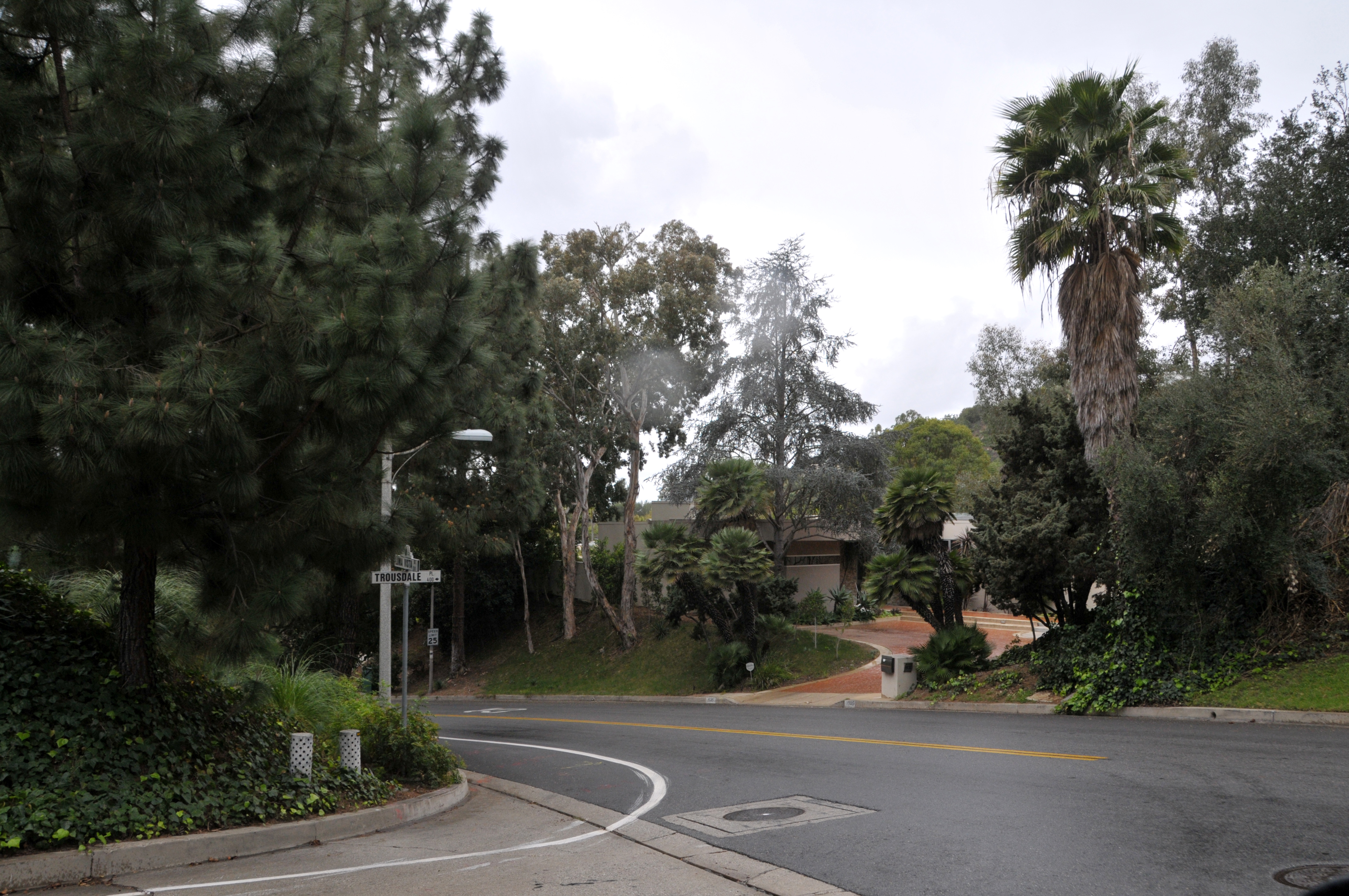 Trousdale Estates - Corner of Trousdale Place and Loma Vista Drive looking South-West, Beverly Hills, California - Photo by Glenn Francis of